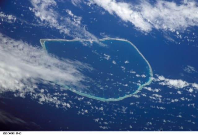 NASA Astronaut Image of Arutua Atoll (Tuamotu Archipelago, French Polynesia) in the Pacific Ocean